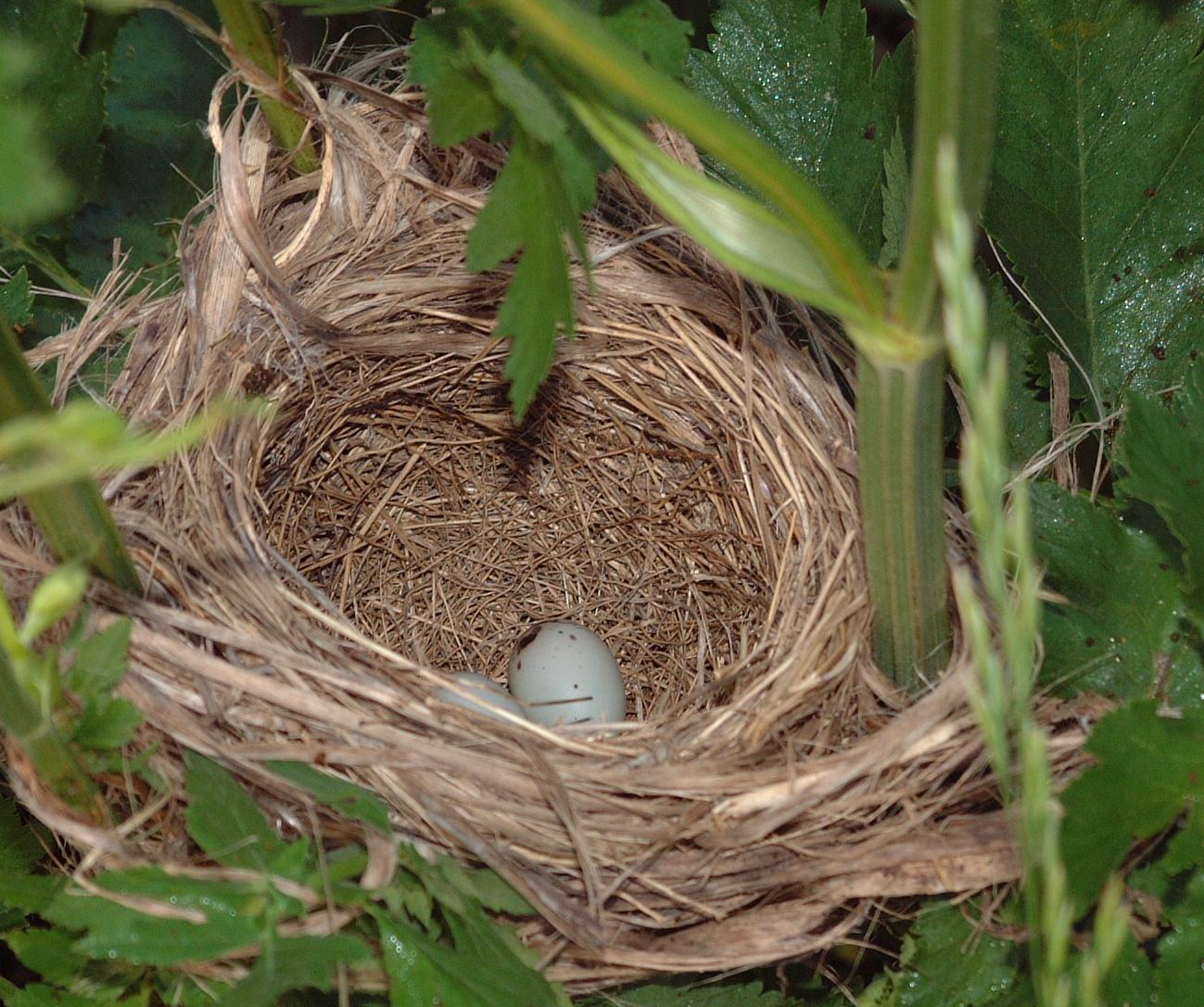 Nest of Red Winged Blackbird (Agelaius phoeniceus) holding two eggs of same.